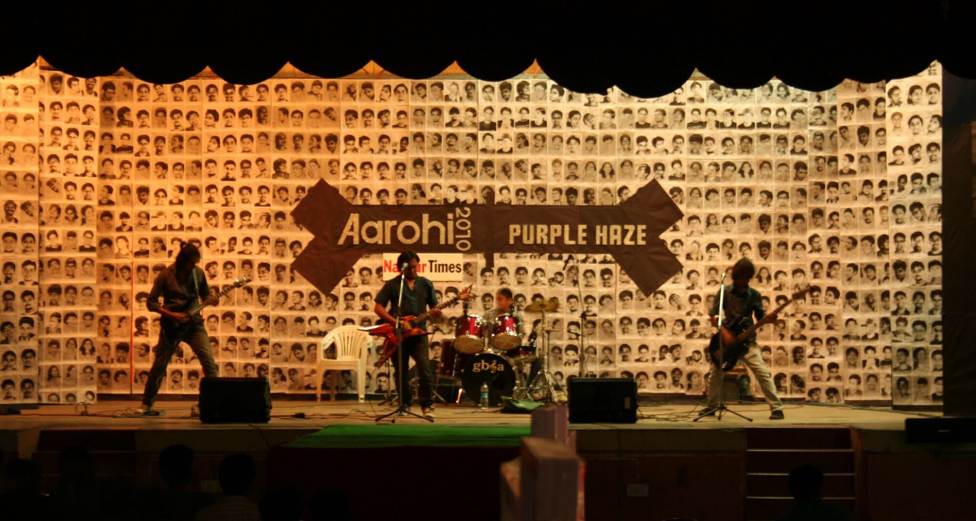 Purple Haze (Band Contest) during Aarohi 2010